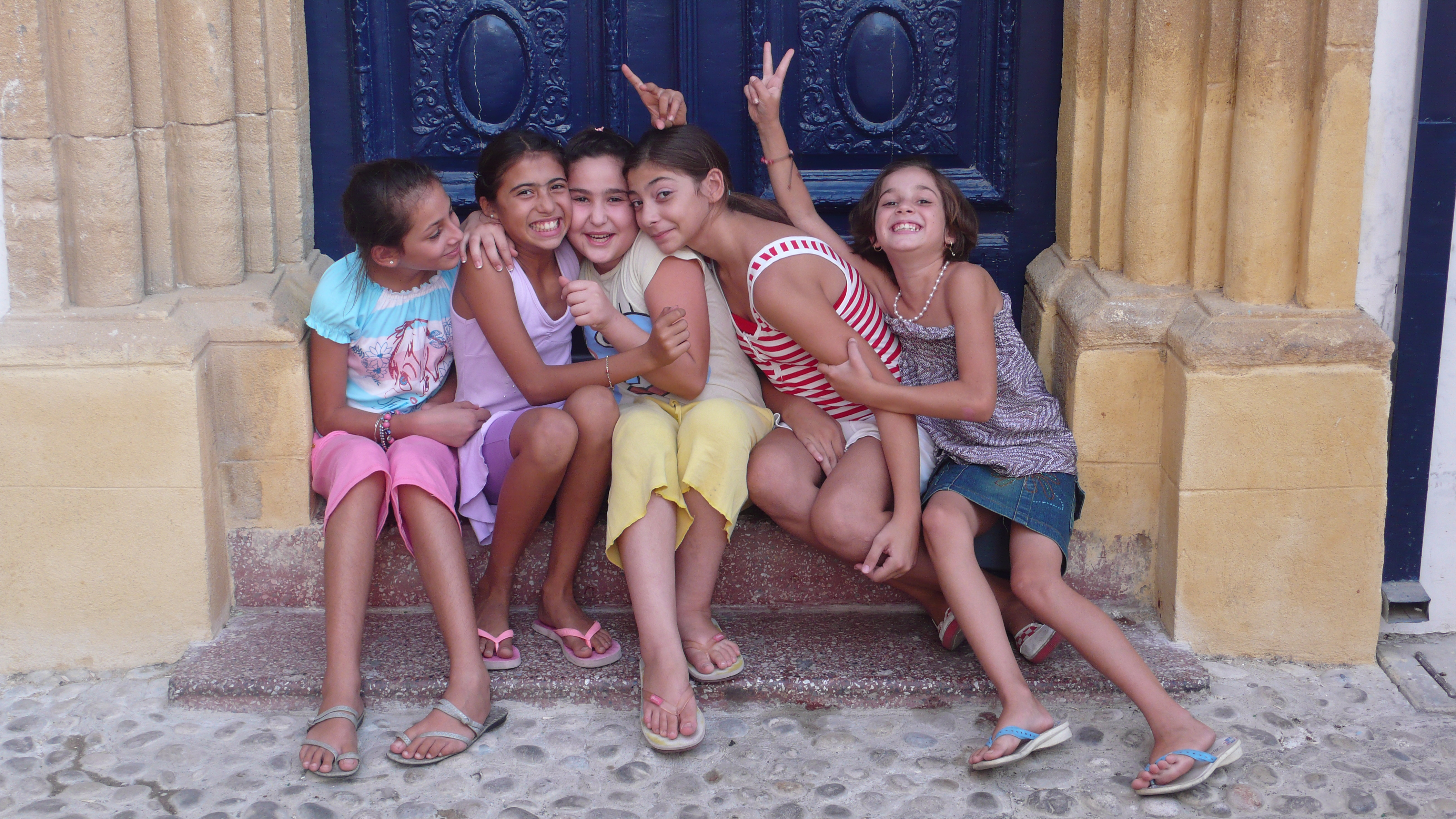 Children in the walled city of Nicosia, Northern Cyprus